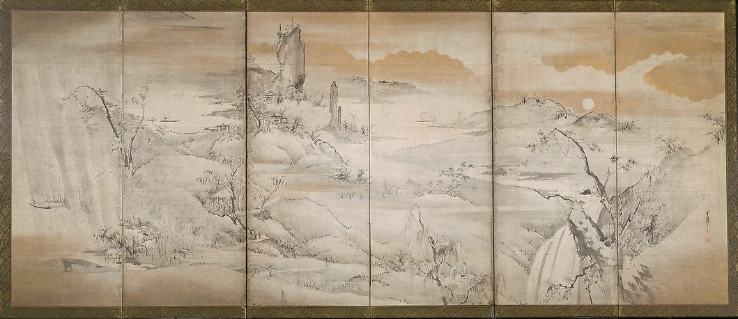 Eight Views of the Xiao and Xiang Rivers (Part II)